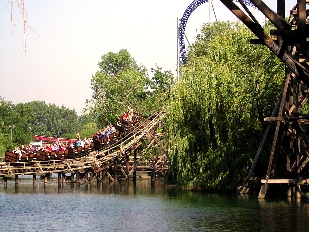 Cedar Creek Mine Ride roller coaster station at Cedar Point.